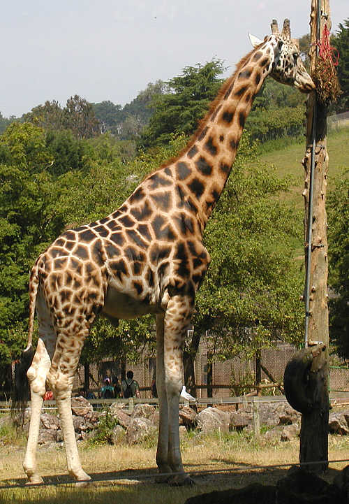 Uganda-Giraffe (Giraffa camelopardalis rotschildi) at Paignton Zoo, Devon, England..